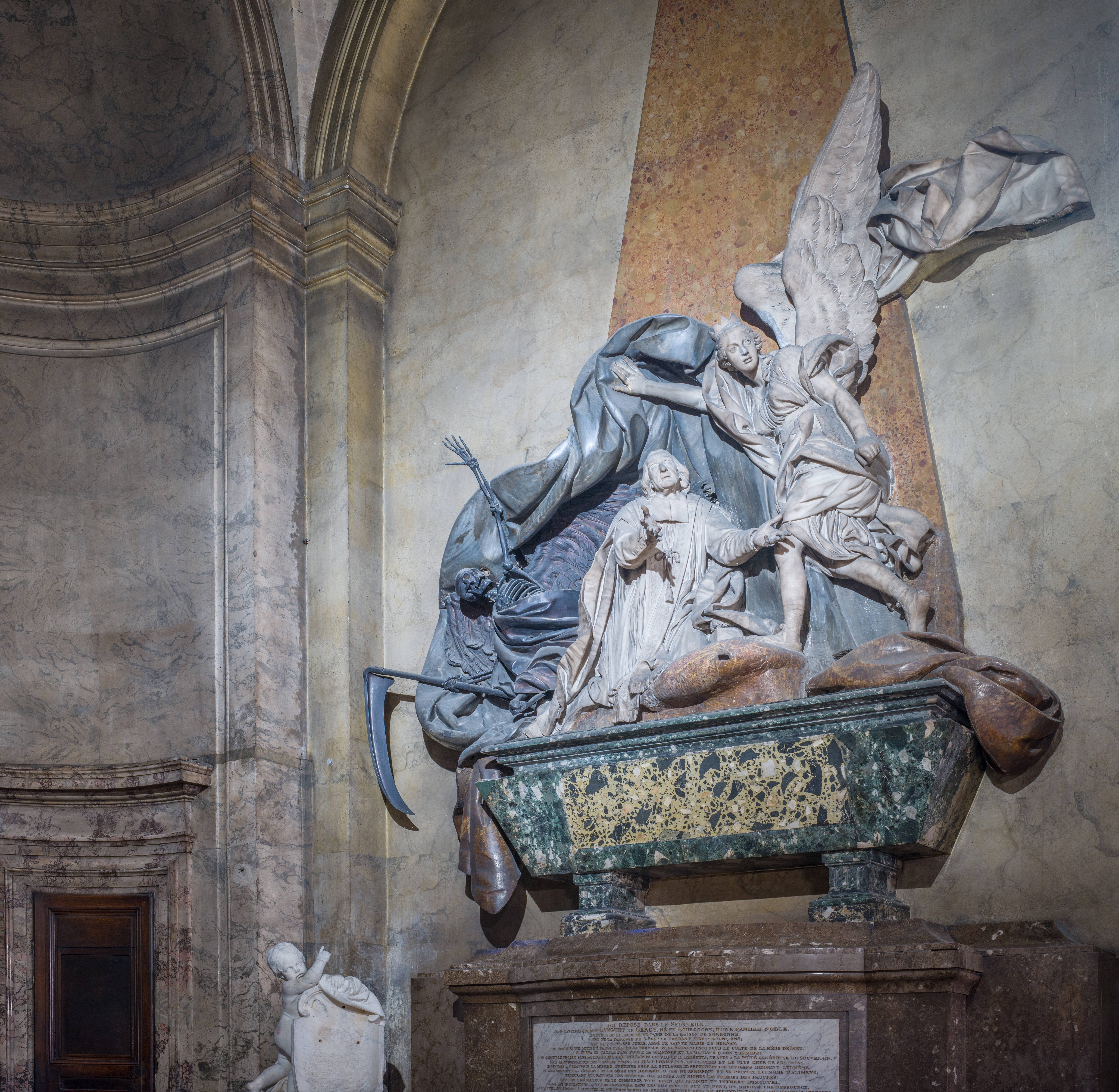 Monument to Jean-Baptiste Languet de Gergy in the Church of Saint-Sulpice, Paris. Statues of Jesus and Saint John the Evangelist.